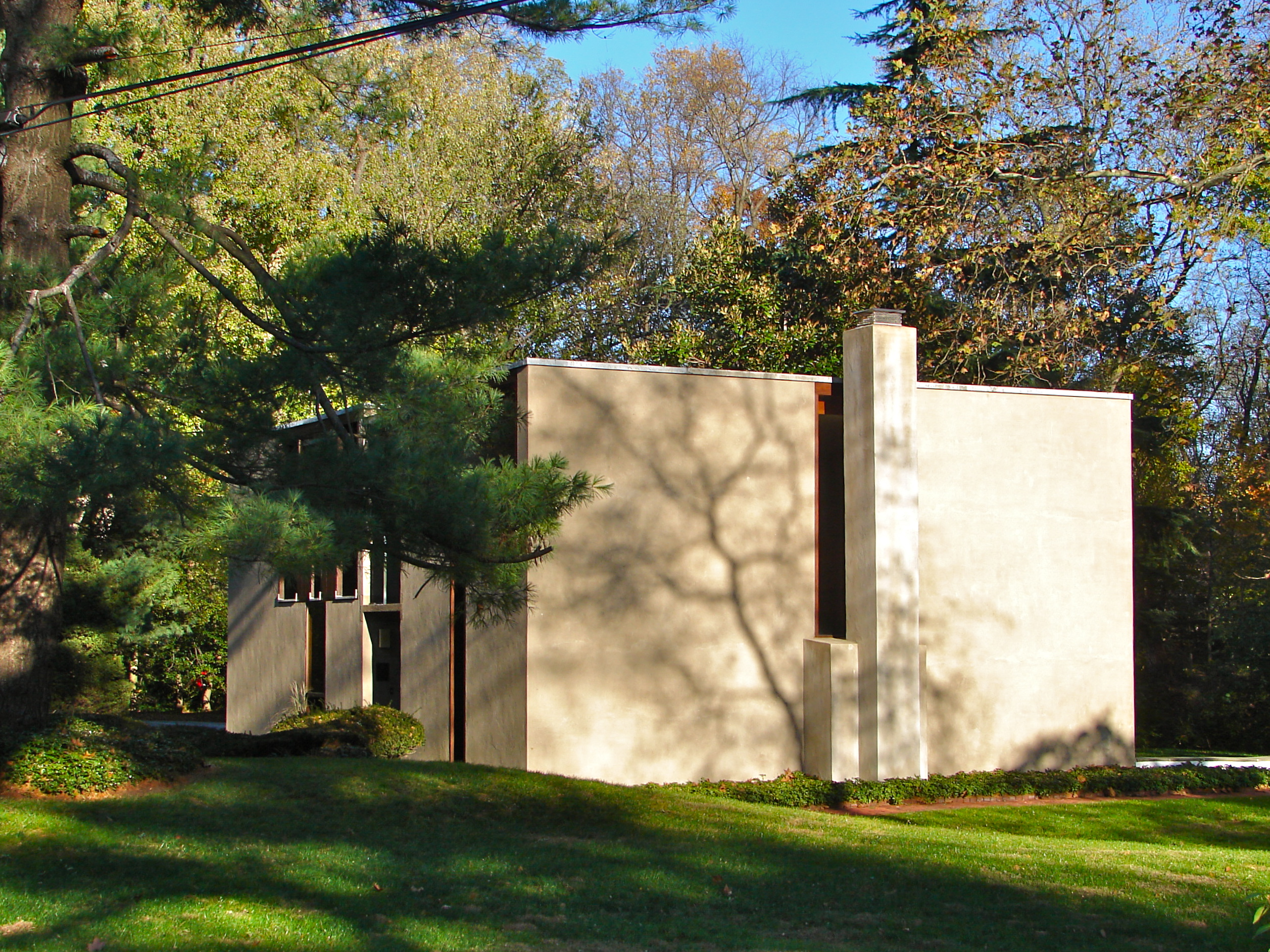 Esherick House designed by Louis Kahn. Located at 204 Sunrise Lane, in the Chestnut Hill neighborhood of Philadelphia, about a block from Pastorious Park